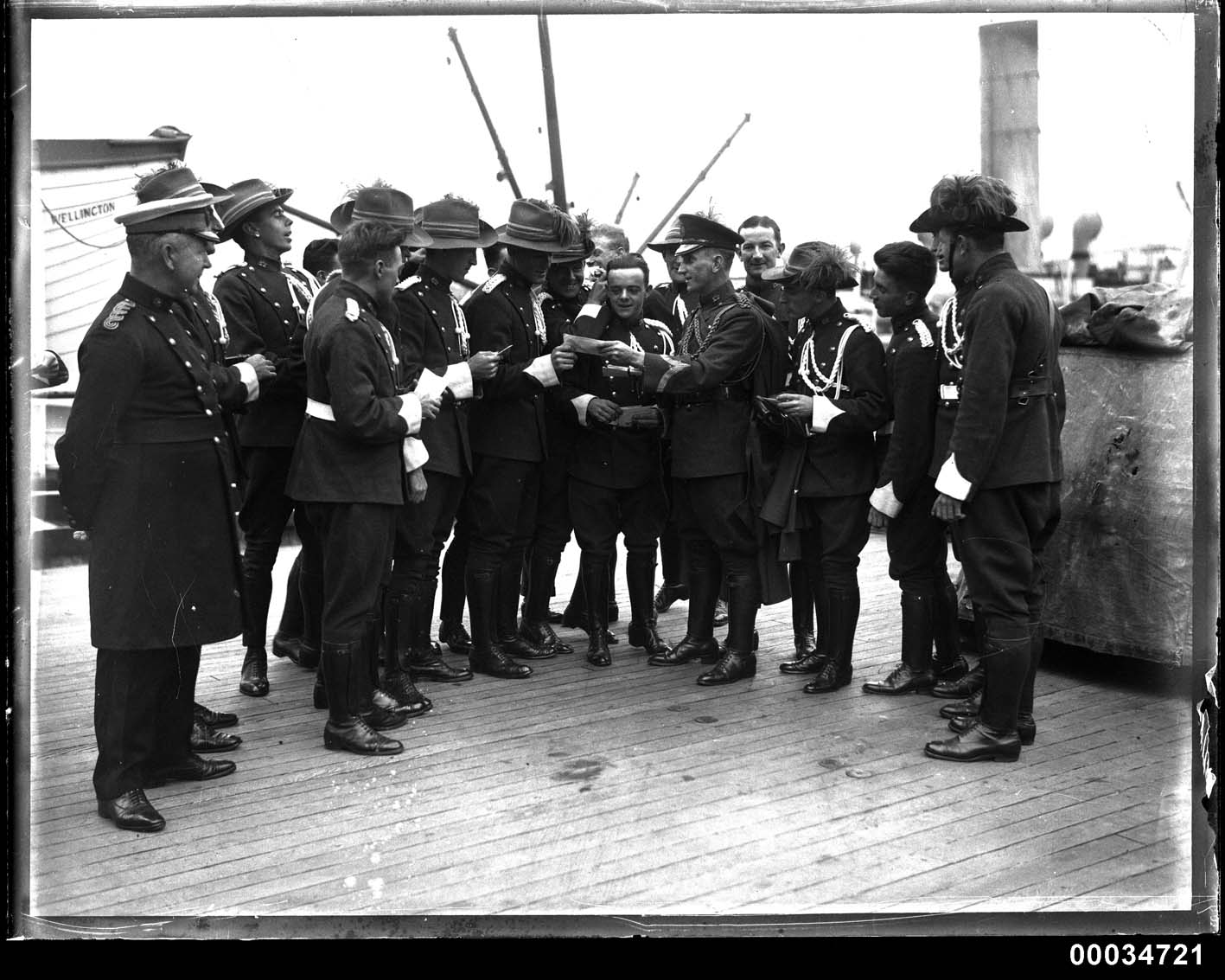 This photo is part of the Australian National Maritime Museum’s Samuel J. Hood Studio collection. Sam Hood (1872-1953) was a Sydney photographer with a passion for ships. His 60-year career spanned the romantic age of sail and two world wars. The photos in the collection were taken mainly in Sydney and Newcastle during the first half of the 20th century. The ANMM undertakes research and accepts public comments that enhance the information we hold about images in our collection. This record has been updated accordingly. Photographer: Samuel J. Hood Studio Collection Object no. 00034721